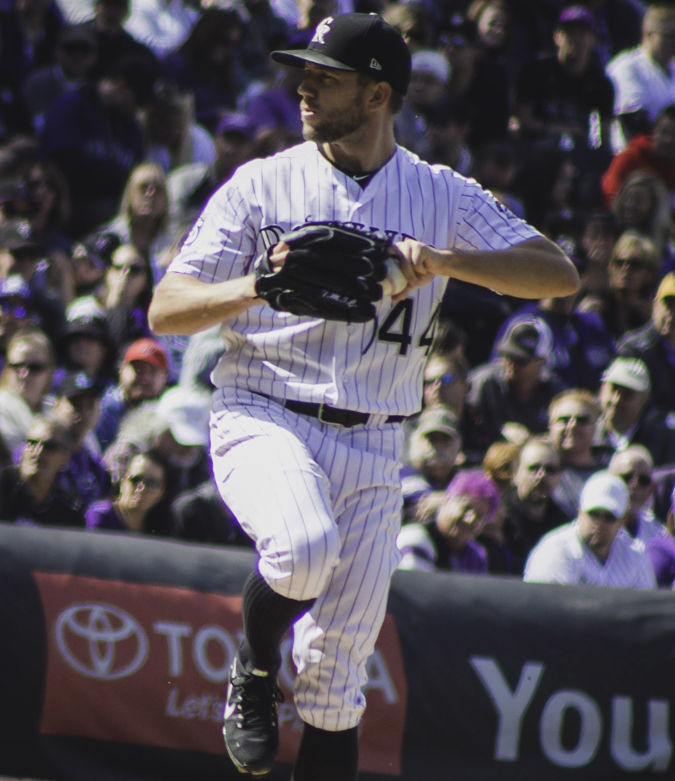 Tyler Anderson of the Colorado Rockies delivers a pitch during a 2018 game at Coors Field in Denver.